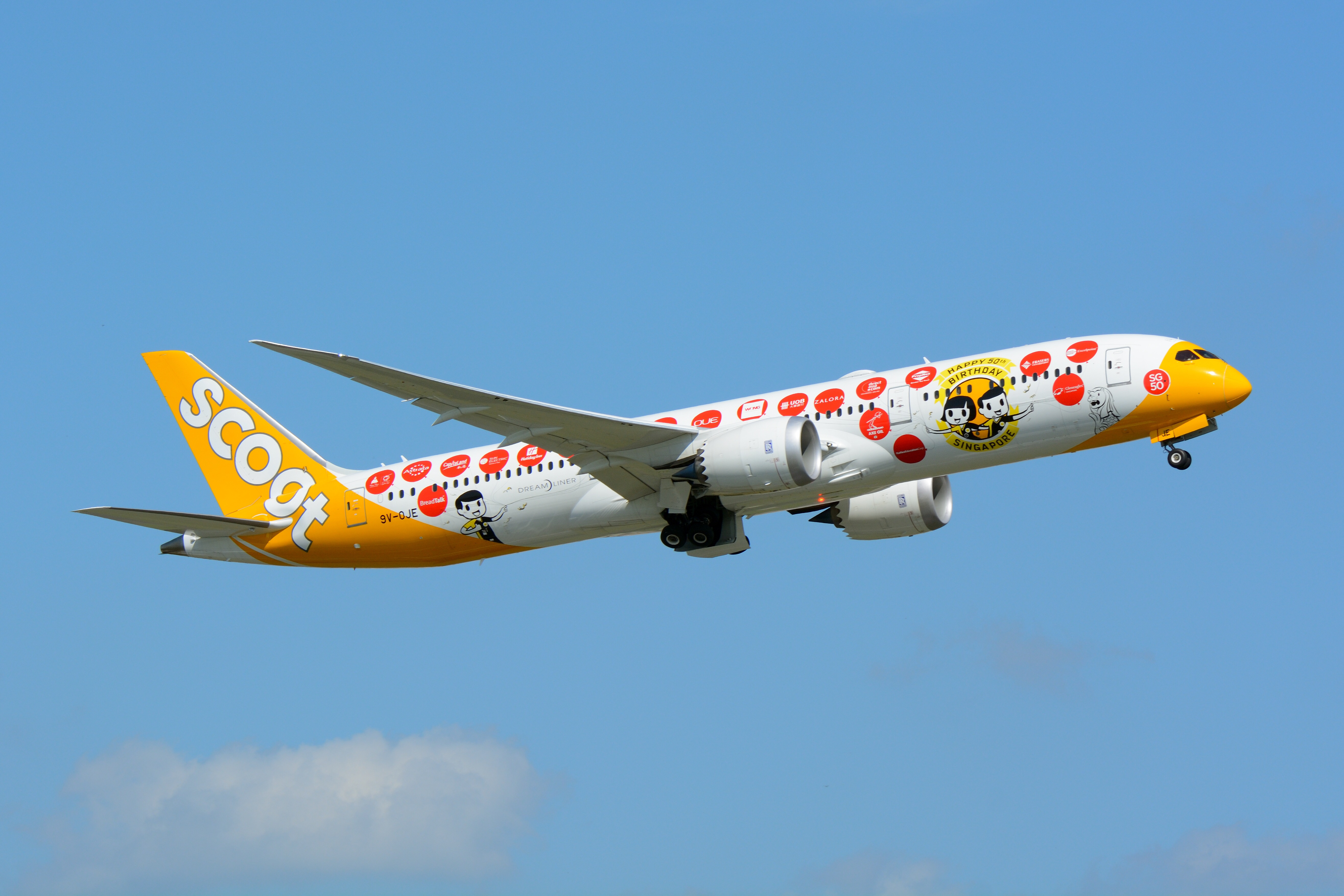 Scoot Boeing 787-9 "Happy 50th Birthday Singapore" at Narita International Airport